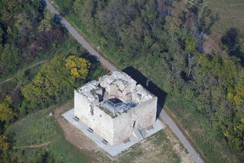 Aerial photography of Tabor ruin, a watchtower probably from 16th century. Neusiedl am See, Austria.